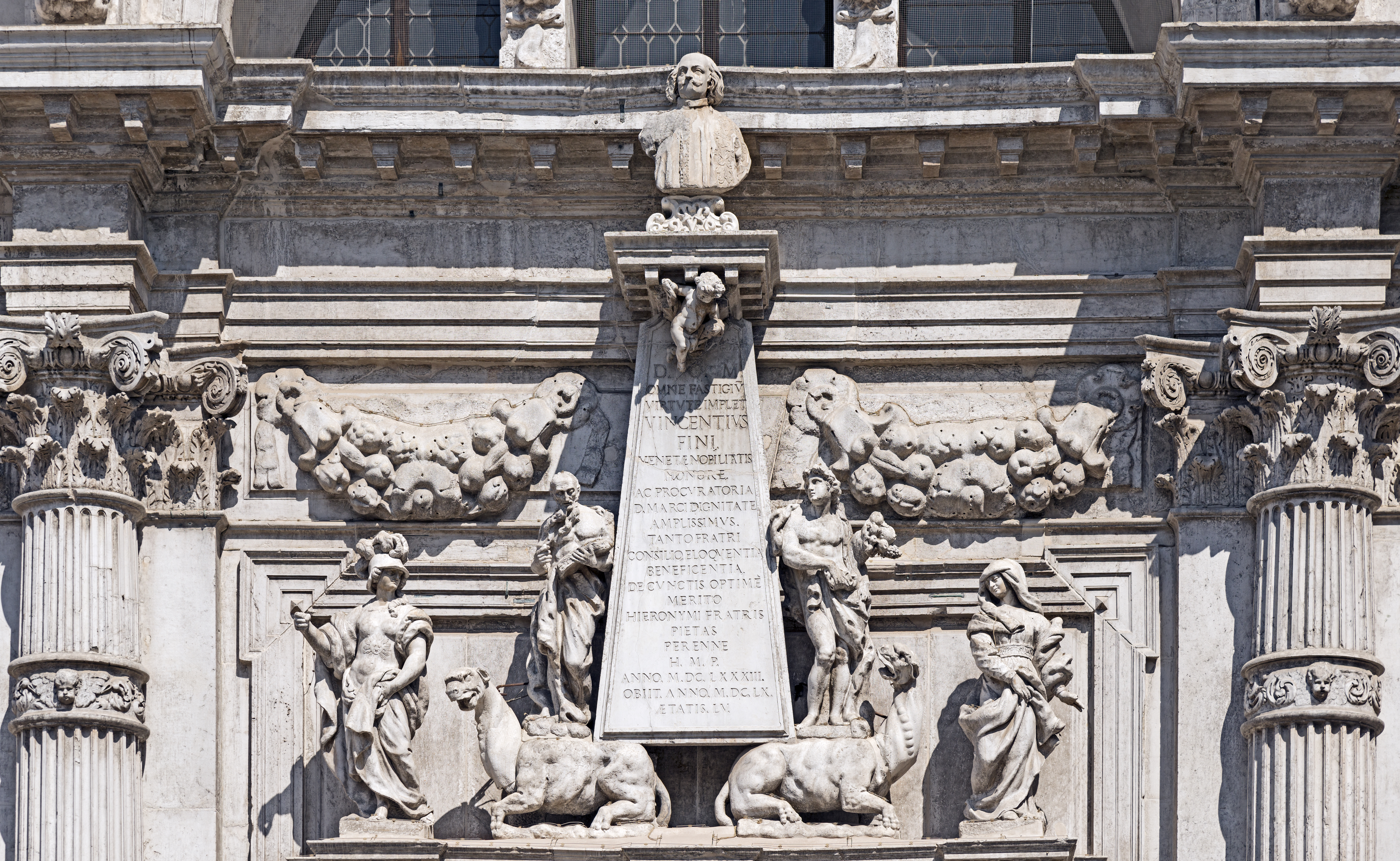 Church San Moisè Venice. Vincenzo Fini's Central monumenth, on the facade.